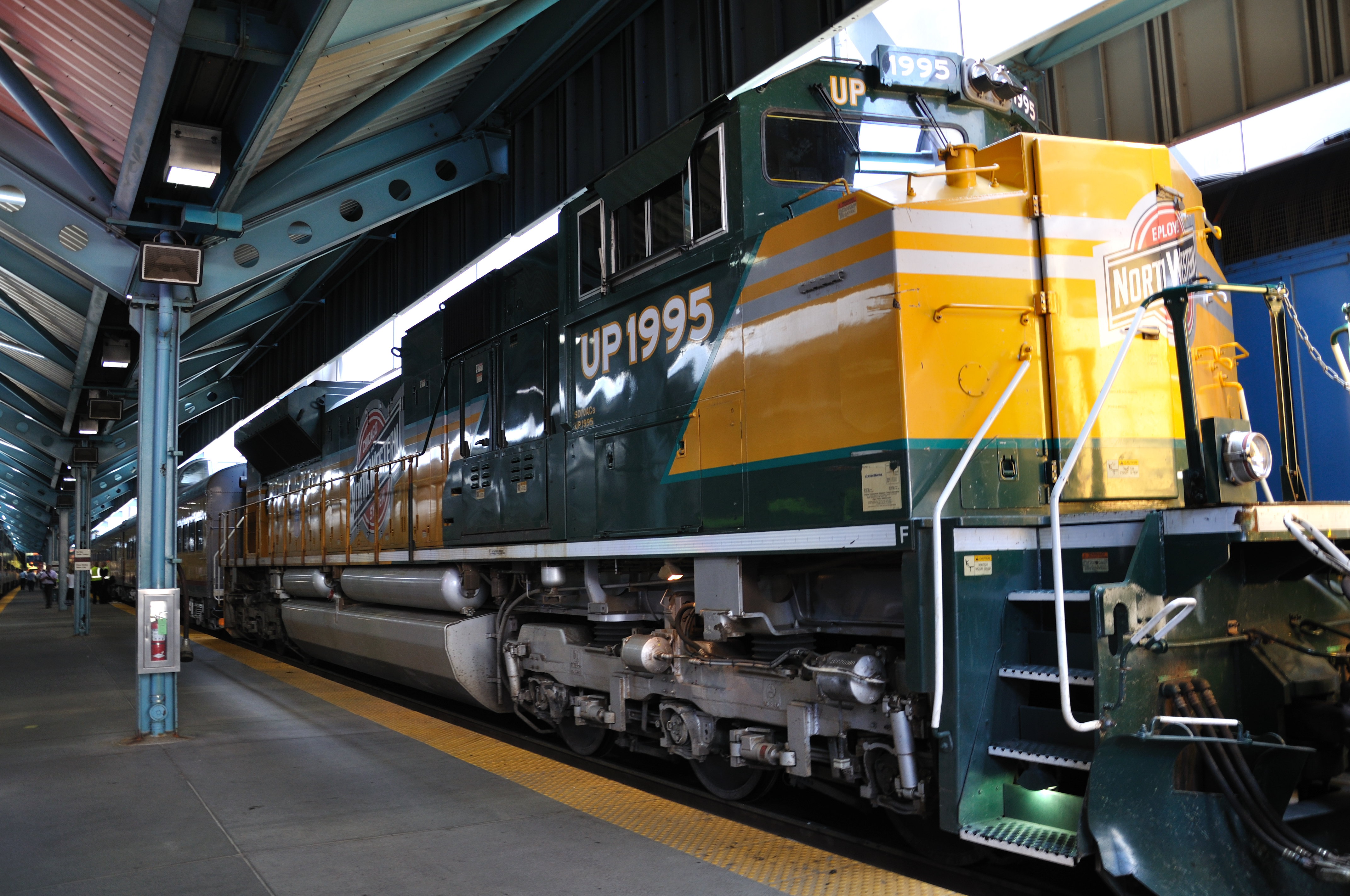 There was no good angle to photograph this.